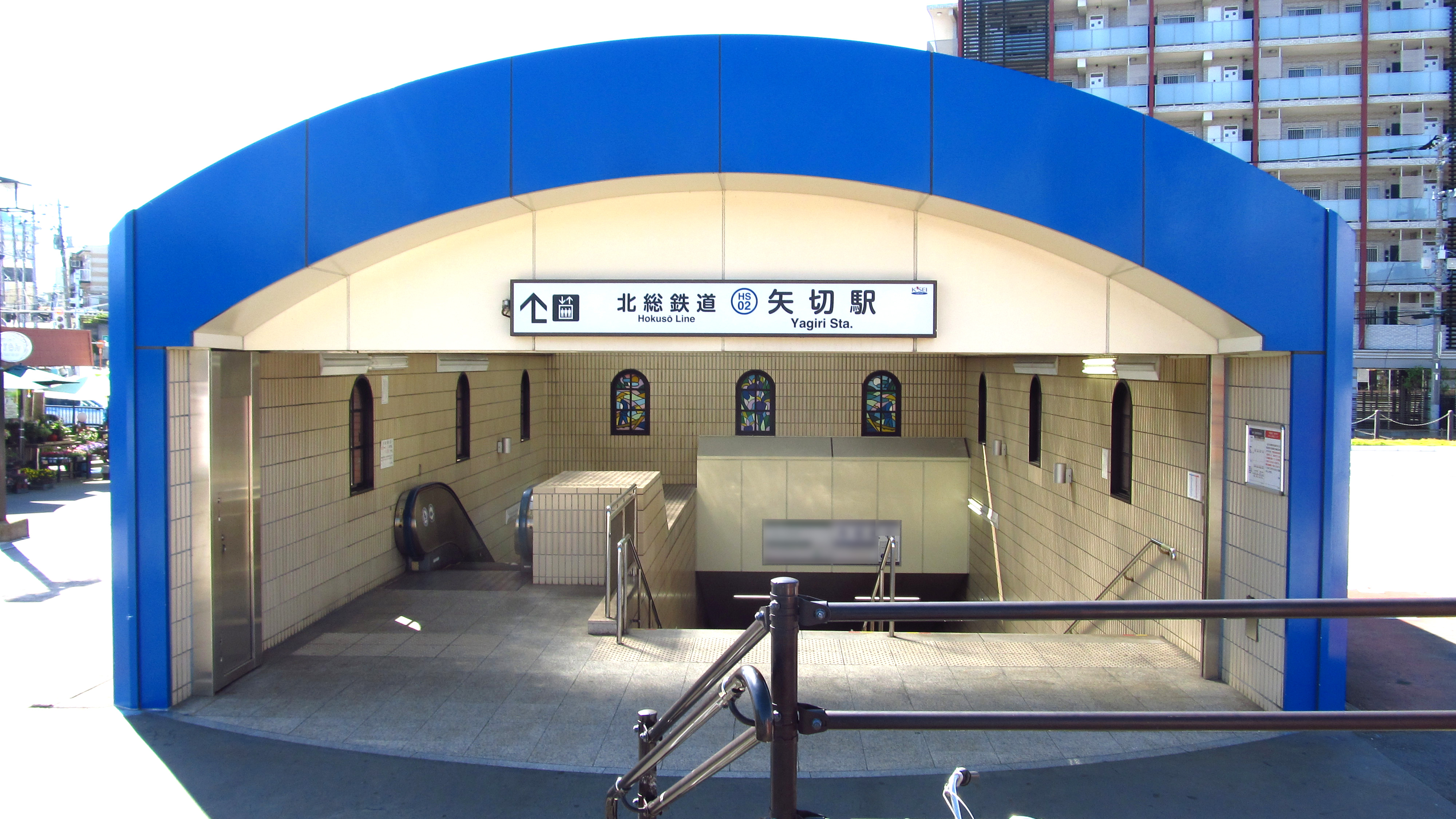 The no.1 entrance to Yagiri Station on the Hokusō Railway in Matsudo city, Chiba prefecture, Japan